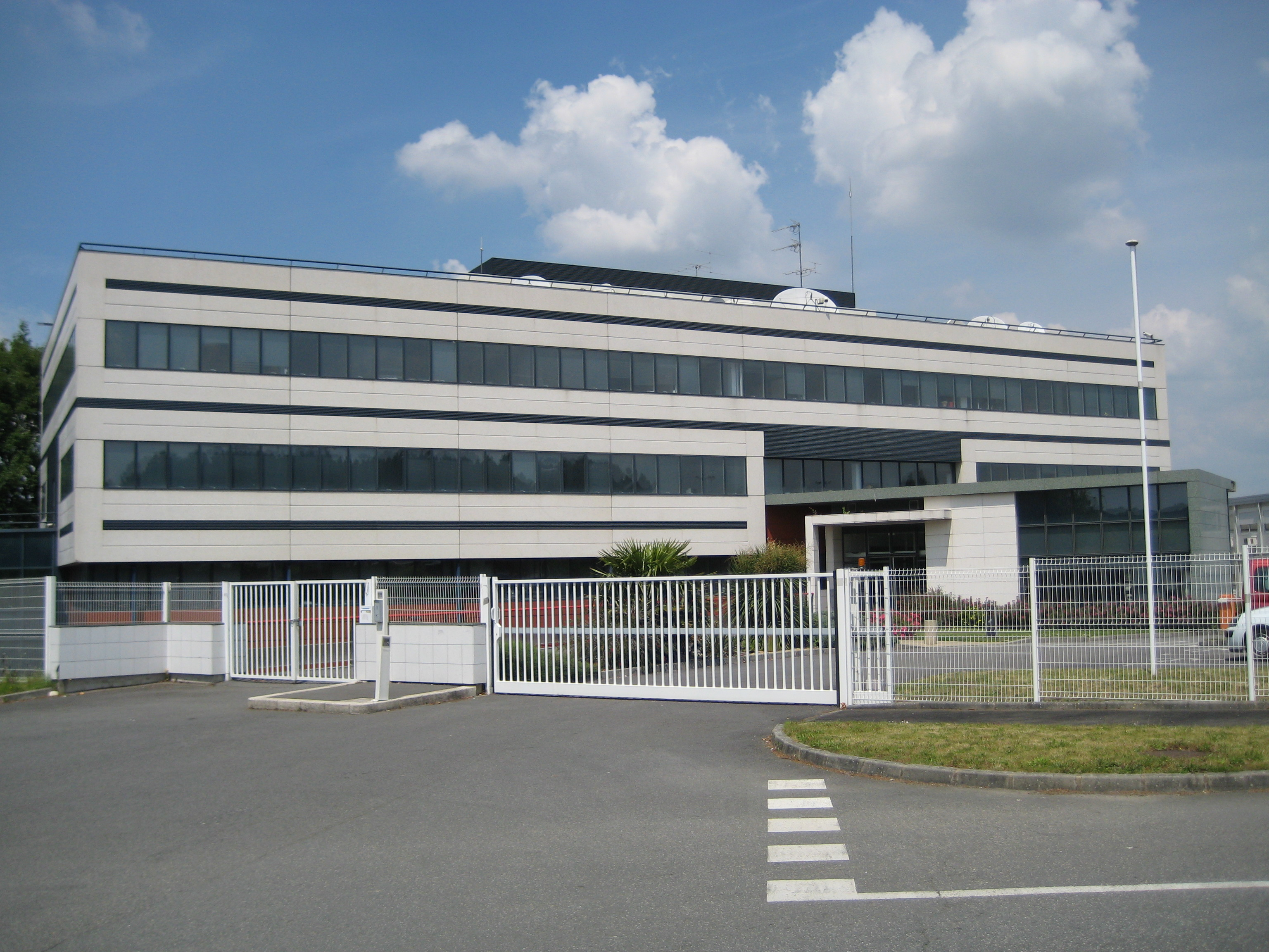 Thomson R&D, Rennes, France